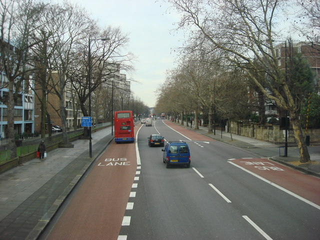 A5 Maida Vale